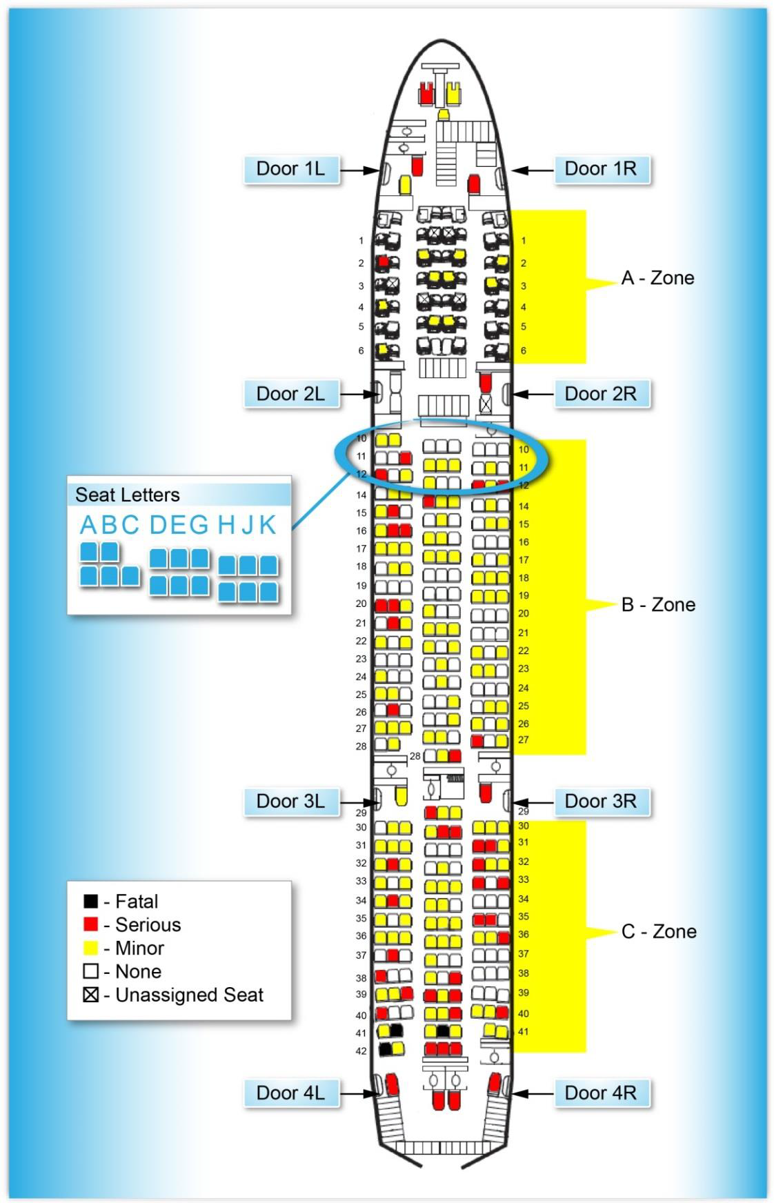 Asiana Airlines Flight 214 seat map (English)